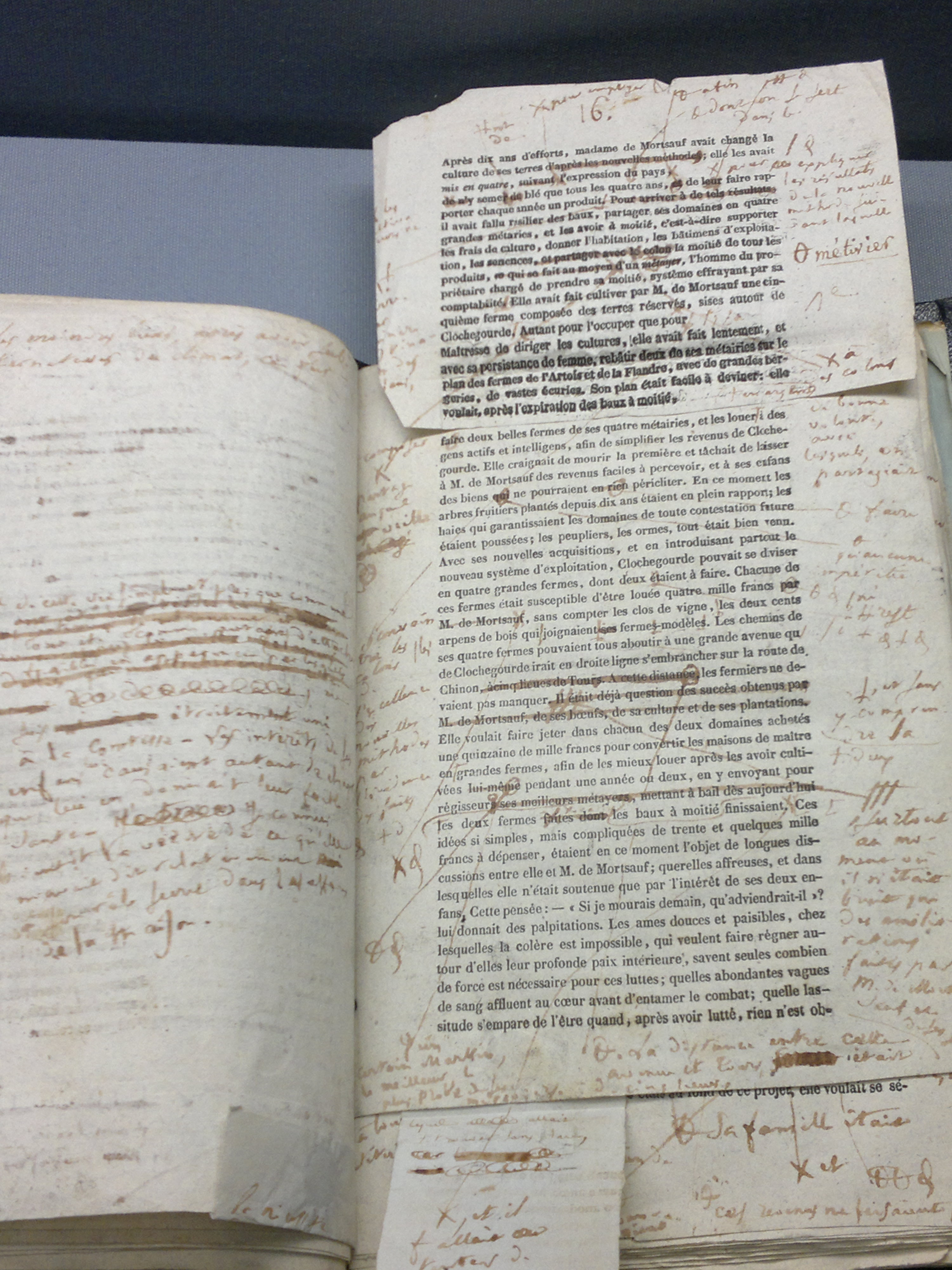 A page of the novel « Le lys dans la vallée » (The Lily of the Valley) published in 1835, annotated by its autor, Honoré de Balzac.